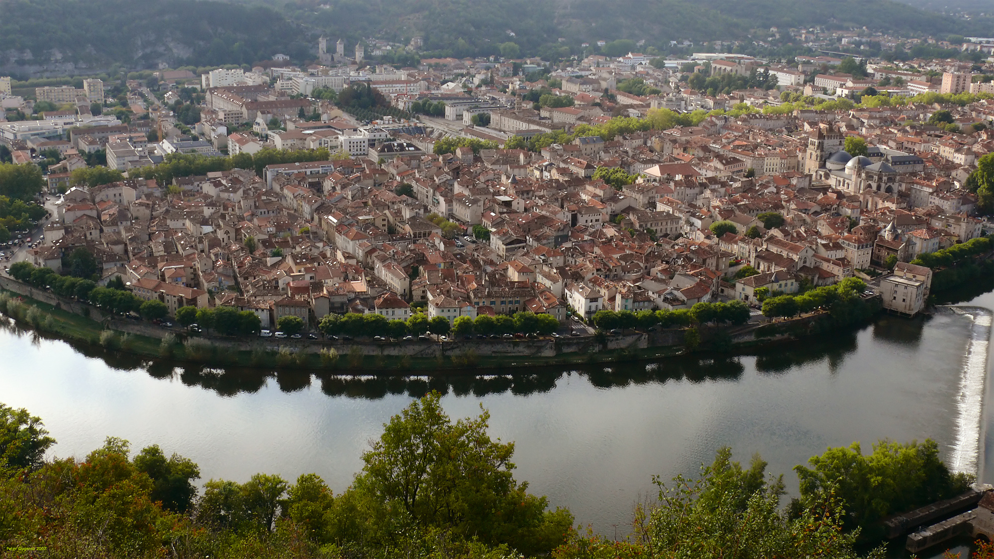 City of Cahors